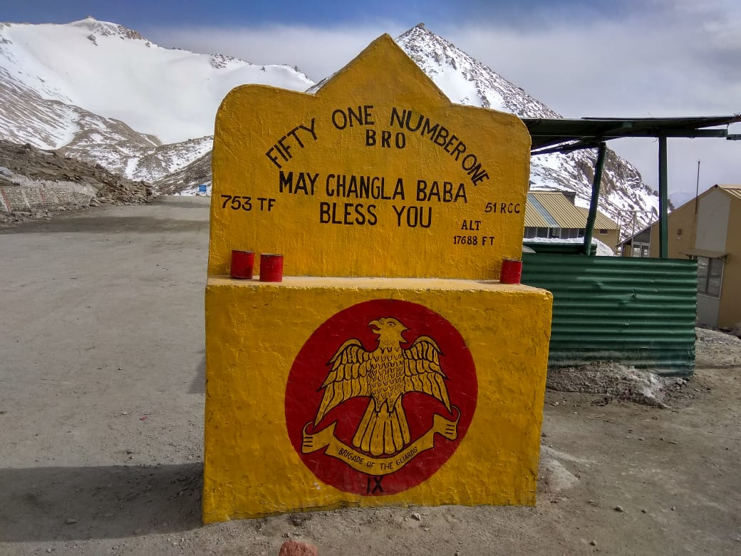 May Changla Baba 17688 FT in Leh Ladakh